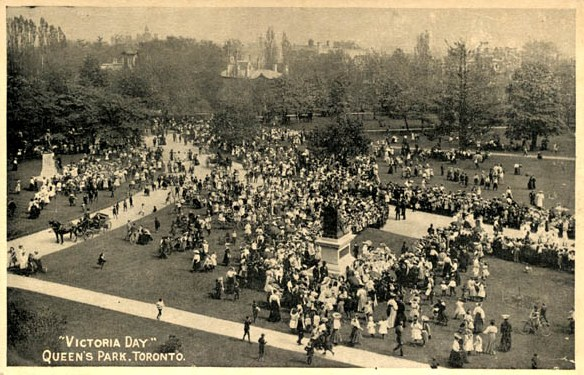 Postcard of Victoria Day celebrations at Queen's Park, Toronto, Canada.